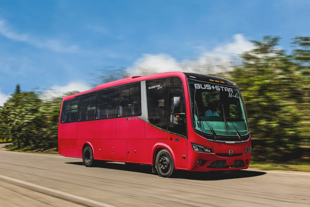 The nwe model of Busscar Of Colombia